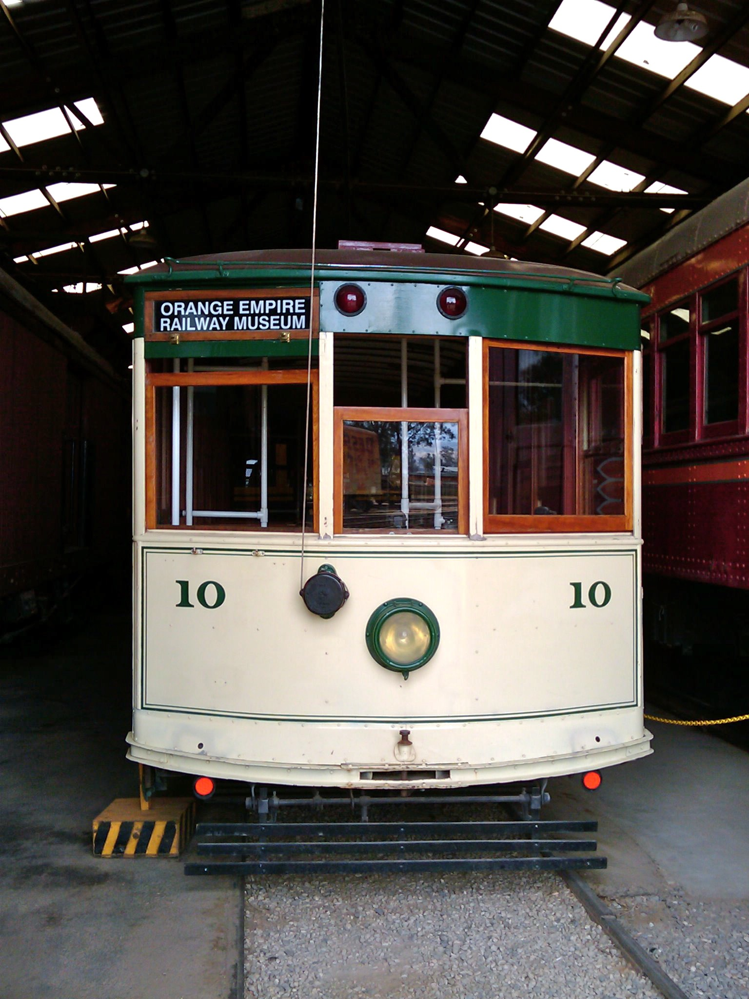 Ex-Pacific Electric Birney car 332 in the carbarn at the Orange Empire Railway Museum in 2009, still carrying the car number (10) and paint scheme it received for its loan to the Old Pueblo Trolley line in Tucson, Arizona, from 1985 to 1995. Car 332 was built in 1918 and retired from regular service in 1939.